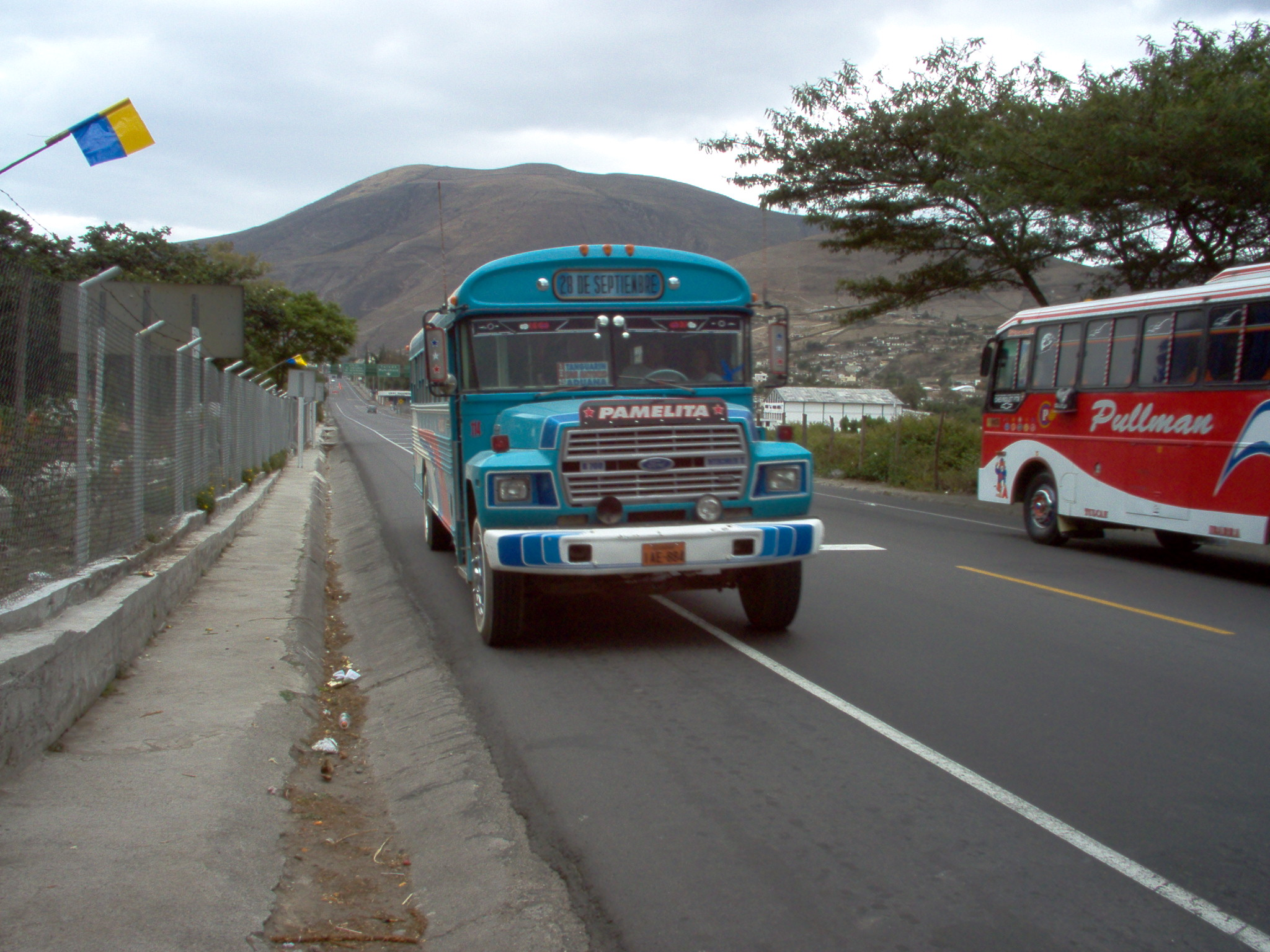 The Panamerican highway near Ibarra, Ecuador